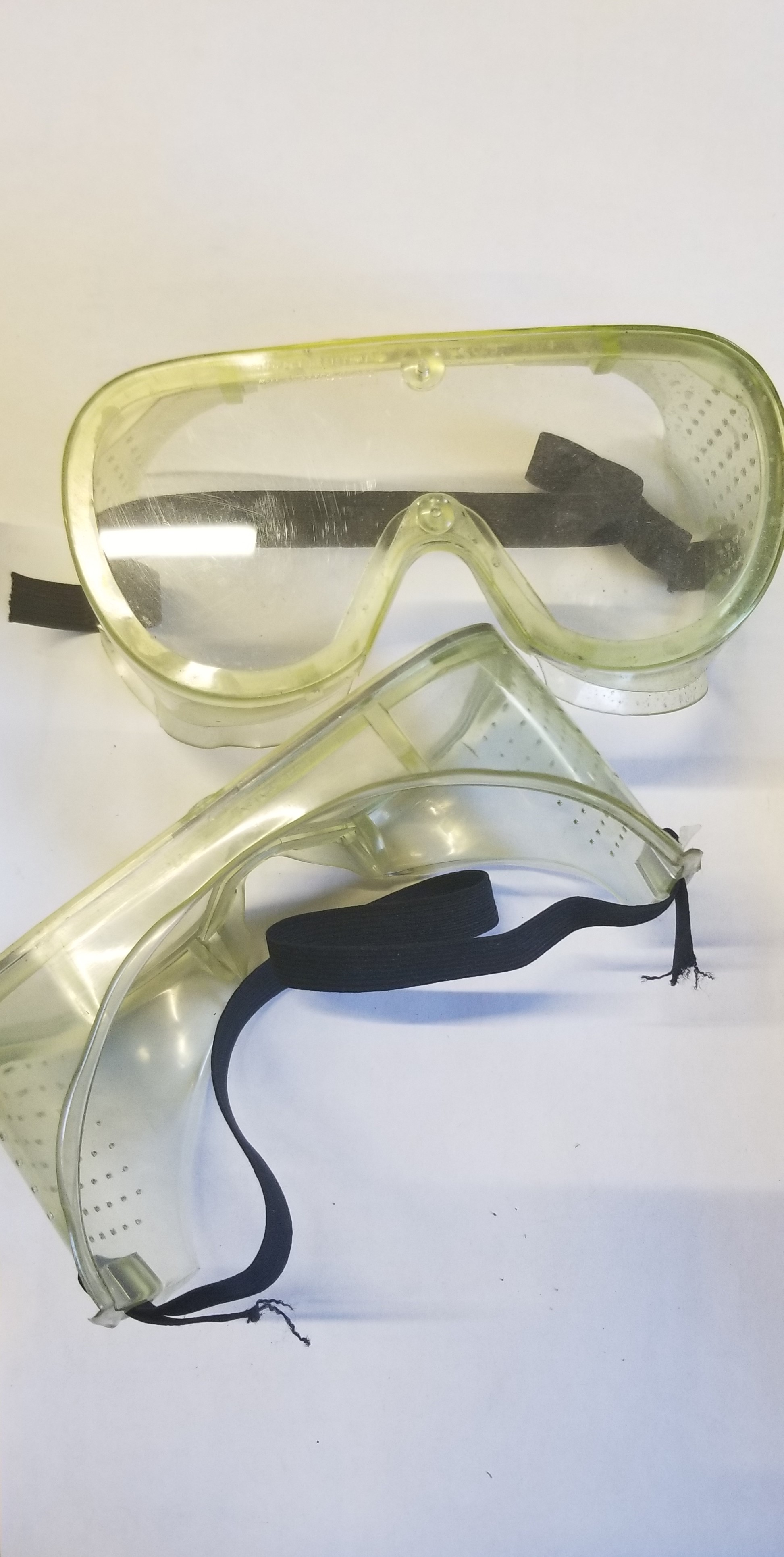 Two examples of impact resistant goggle style eye wear